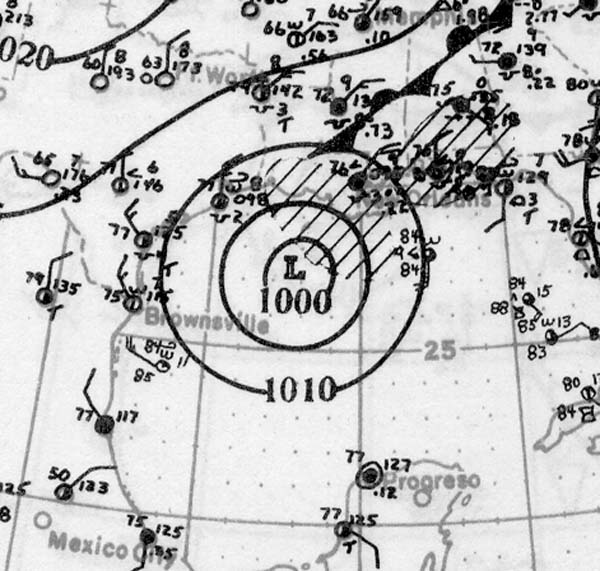 Surface analysis of Hurricane Three of the 1920 Atlantic hurricane season at peak intensity as a Category 3 hurricane in the Gulf of Mexico